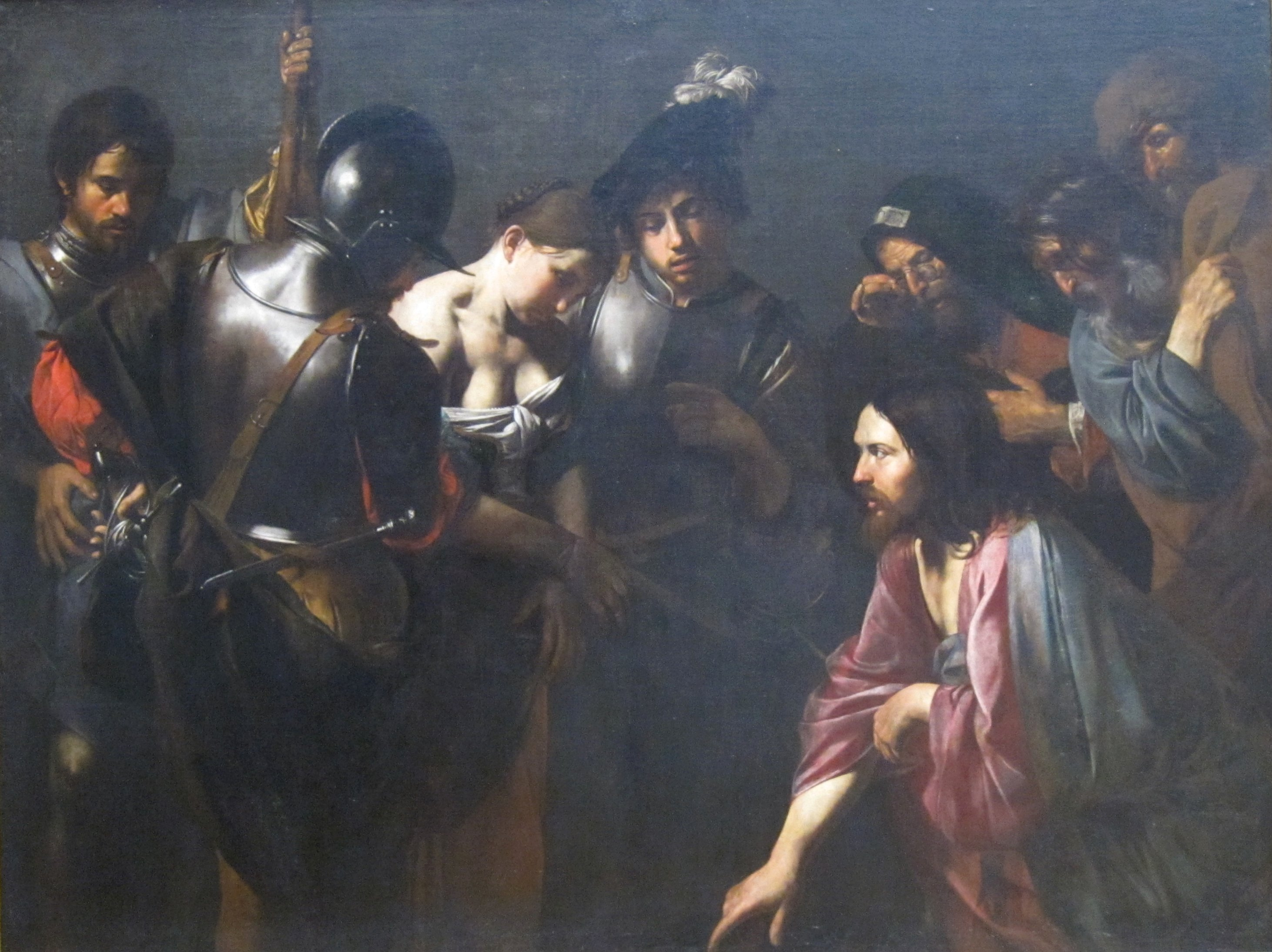 Christ and the Adulteress